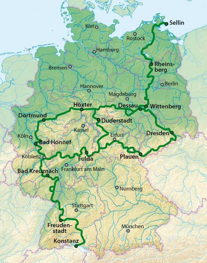 Map of "Deutsche Alleenstraße"